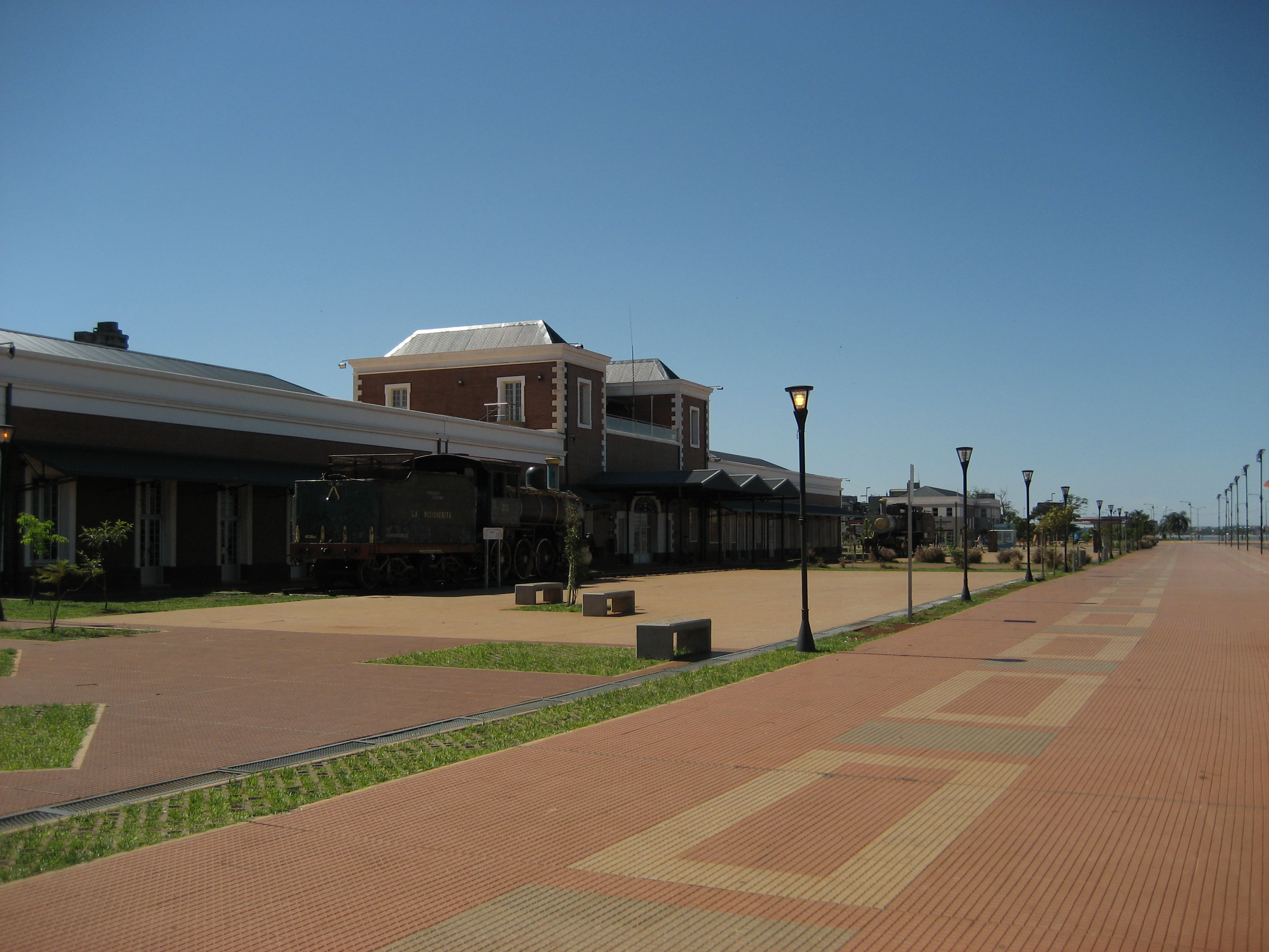 Posadas train station, disused